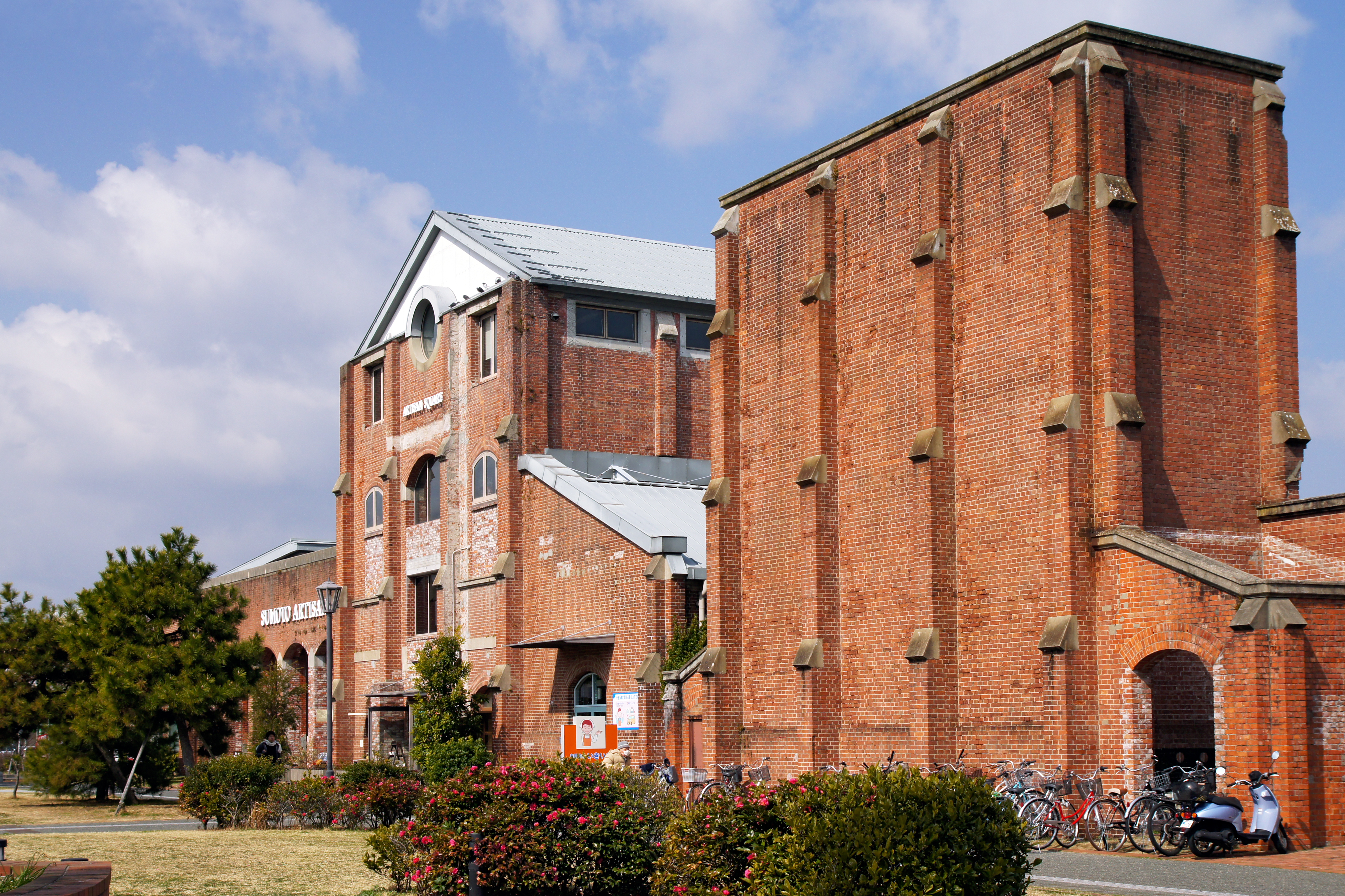 Sumoto_Artisan_Square in Sumoto, Hyogo prefecture, Japan.